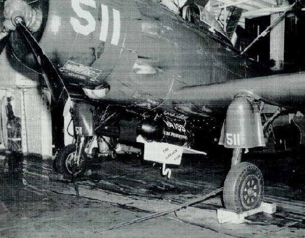 A U.S. Navy Douglas AD-4 Skyraider of Attack Squadron 195 (VA-195) "Dambusters" with a special ordnance aboard the aircraft carrier USS Princeton (CVA-37) in August 1952. VA-195 was assigned to Carrier Air Group 19 (CVG-19) for a deployment to the Korean War from 21 March to 3 November 1952. The "special weapon" was a 454 kg (1000 lb) bomb with a kitchen sink attached. The idea came up, when the squadron's executive officer LCdr. M.K. Dennis remarked during a meeting with the press: "We dropped everything on them (the North Koreans) but a kitchen sink." Royal J. Deland, ADC, and J. Burnett, ADC, then produced a bomb with a kitchen sink attached. The commanding Admiral was not pleased by this and would not allow to drop the bomb for a week. However, press coverage in the United States obviously led to the dropping of this bomb in August 1952 on Pyongyang by Lt.(jg) Carl B. Austin.[1]